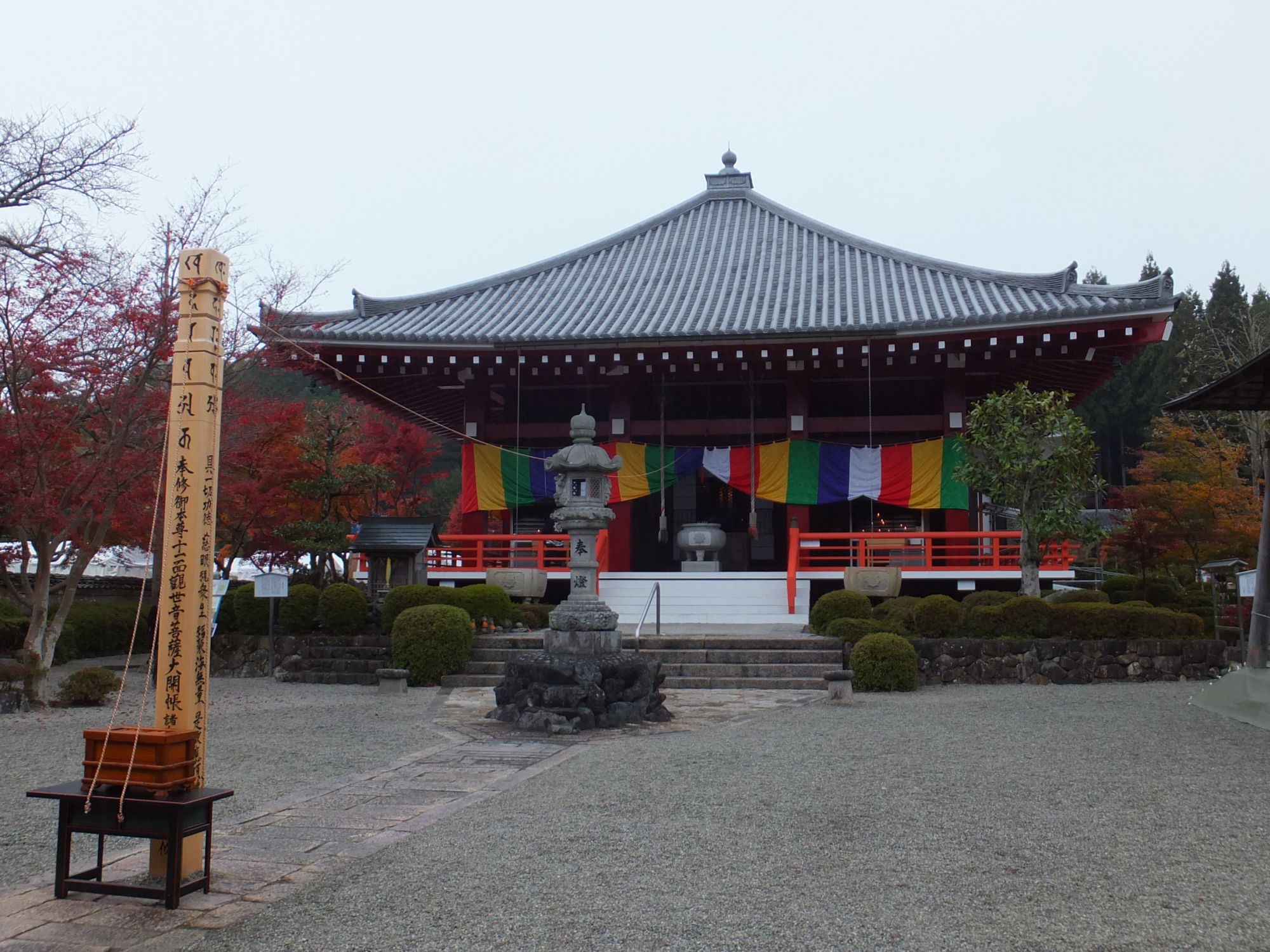 Rakuya-ji temple in Kōka, Shiga Prefecture